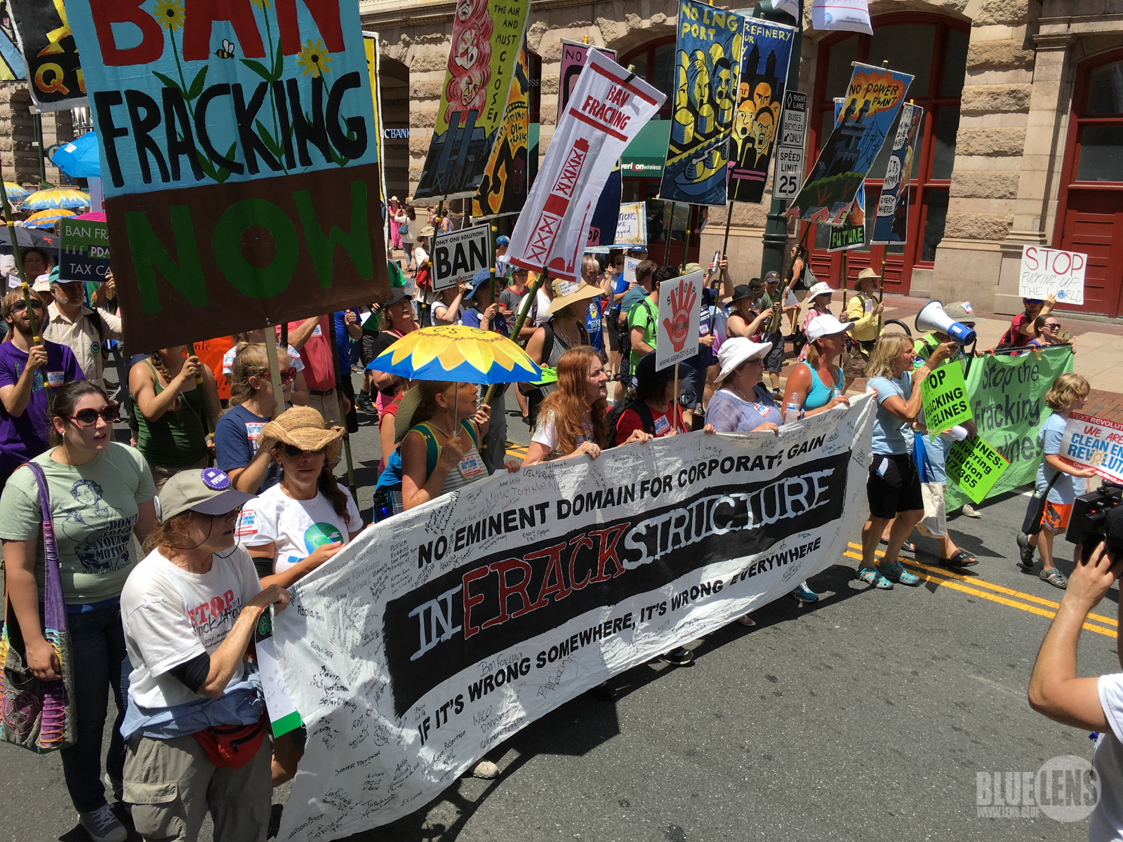 One of many photos that I took at the Clean Energy March in Philadelphia on July 24, 2016. It was extremely hot that day, but I heard informally that over 7k people showed up! - Mark Dixon .